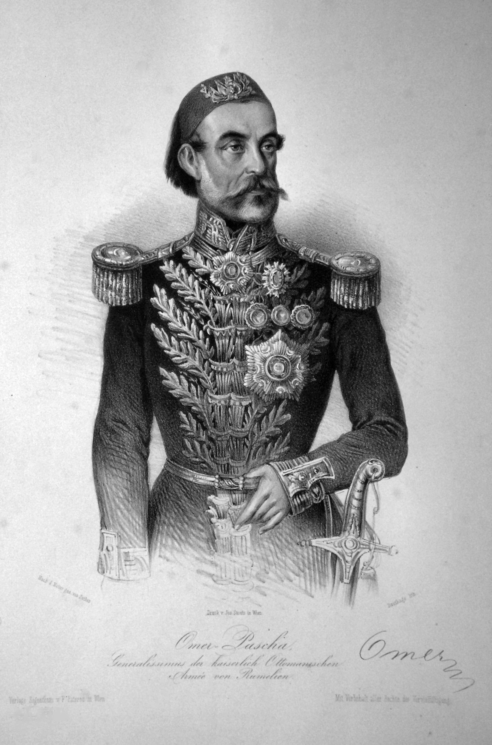 Omar Pasha, picture by Adolf Dauthage